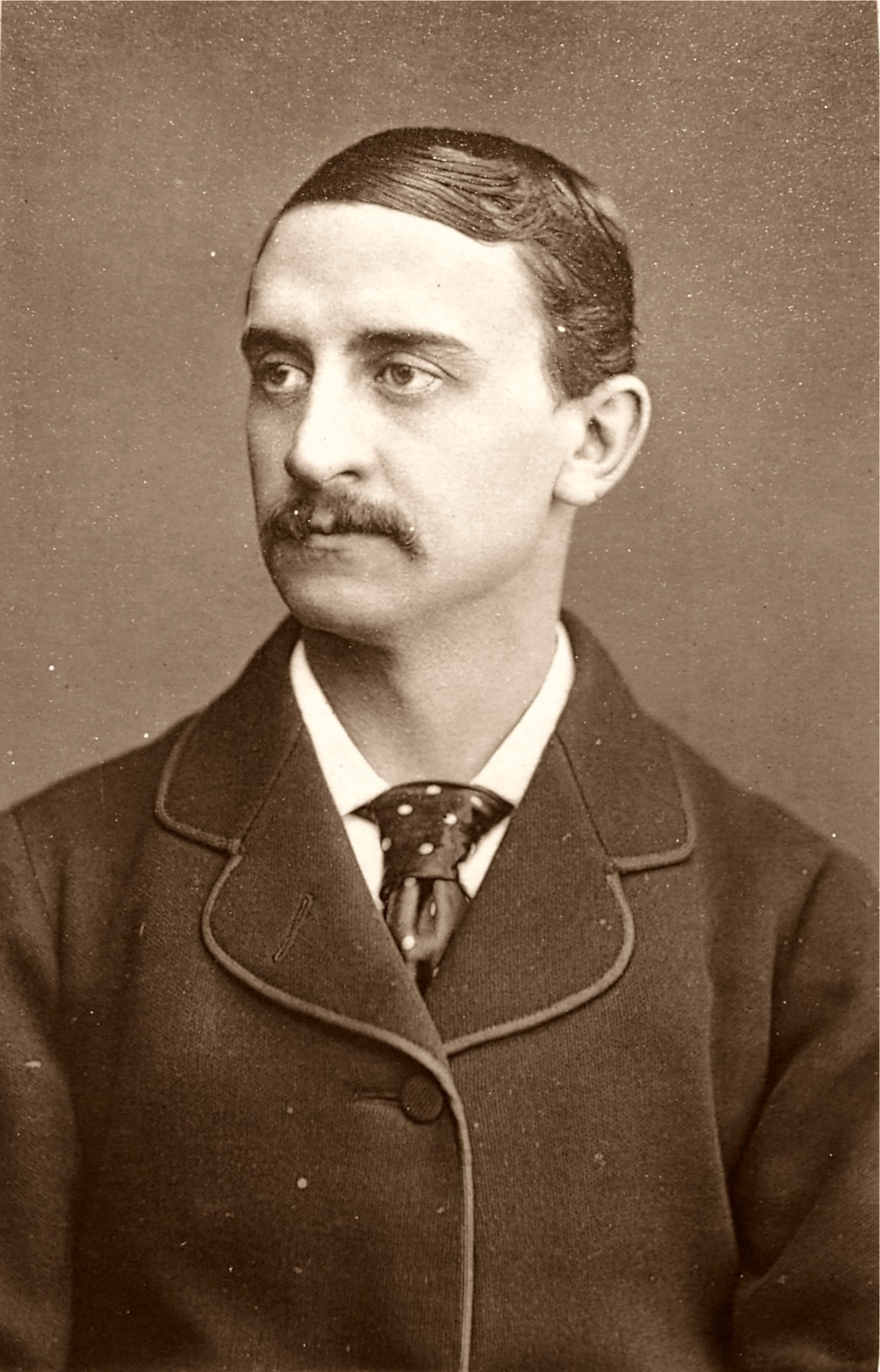 Sir John Hare 1844-1921, English Actor.